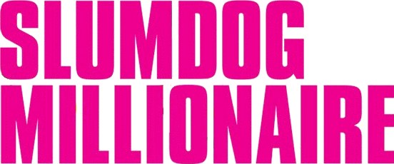 Logo of the movie Slumdog Millionaire.